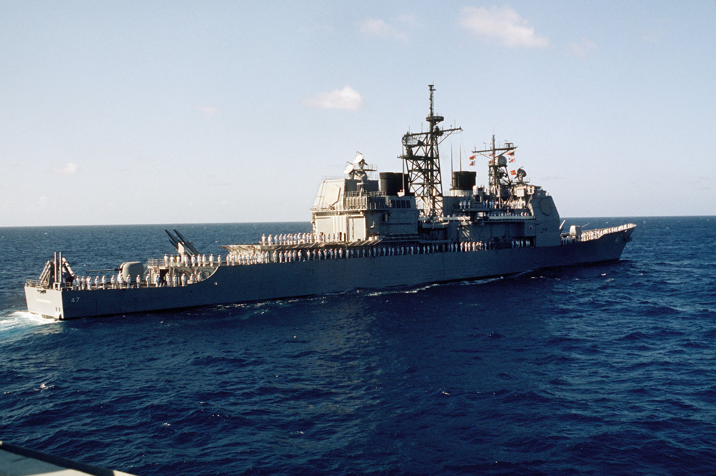 A starboard quarter view of the guided missile destroyer USS Ticonderoga (CG-47) underway in the Atlantic Ocean with the ship's crew manning the rails.